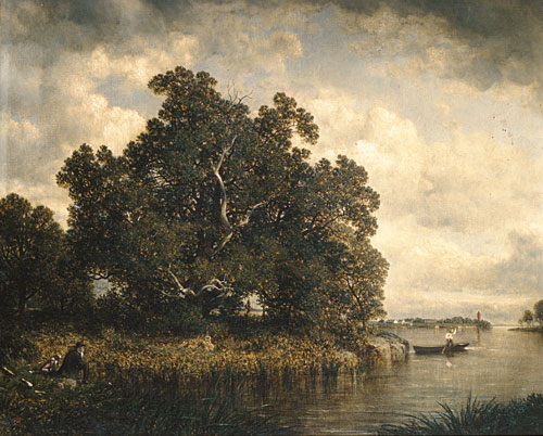 Bayside, New Rochelle, New York; oil on canvas, 19 3/8 x 24 inches (49.5 x 61 cm); from a private collection